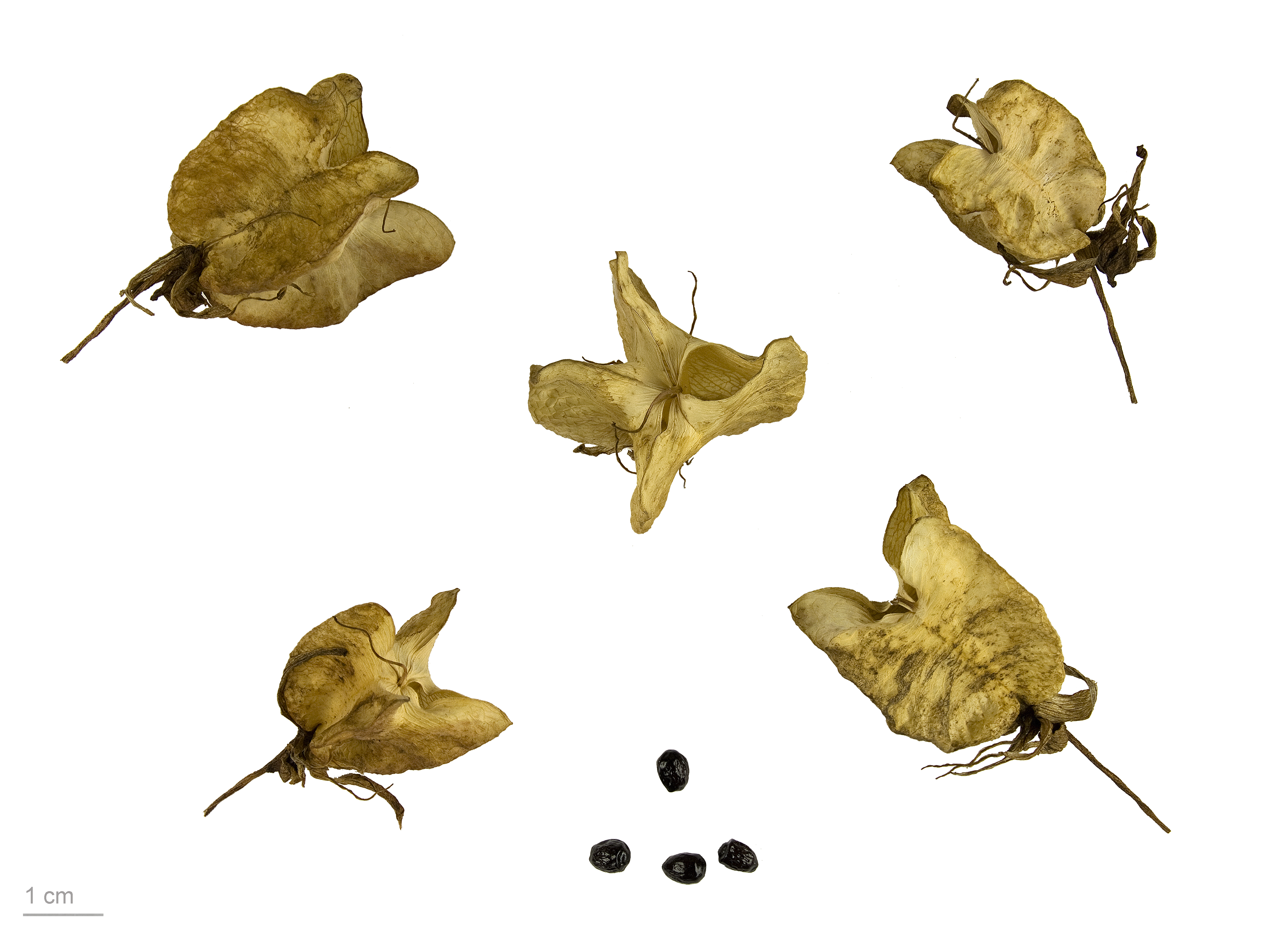 Giant honey flower, fruits and seeds